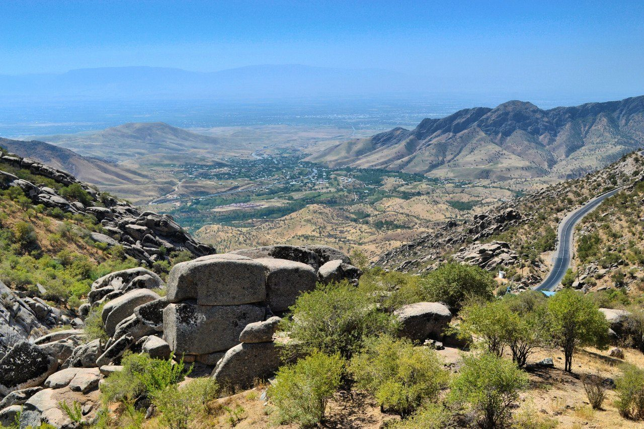 Samarkand mountains (Uzbekistan)